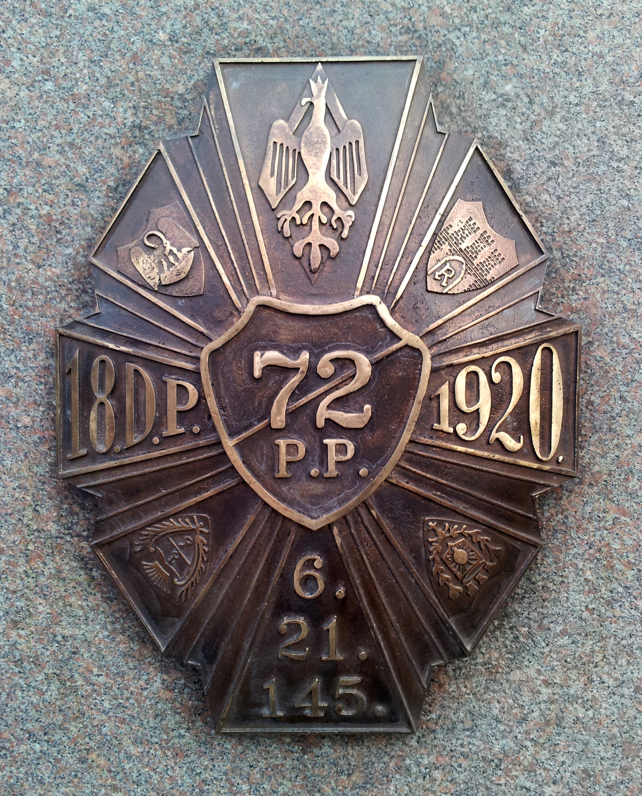 72nd Infantry Regiment monument in Radom